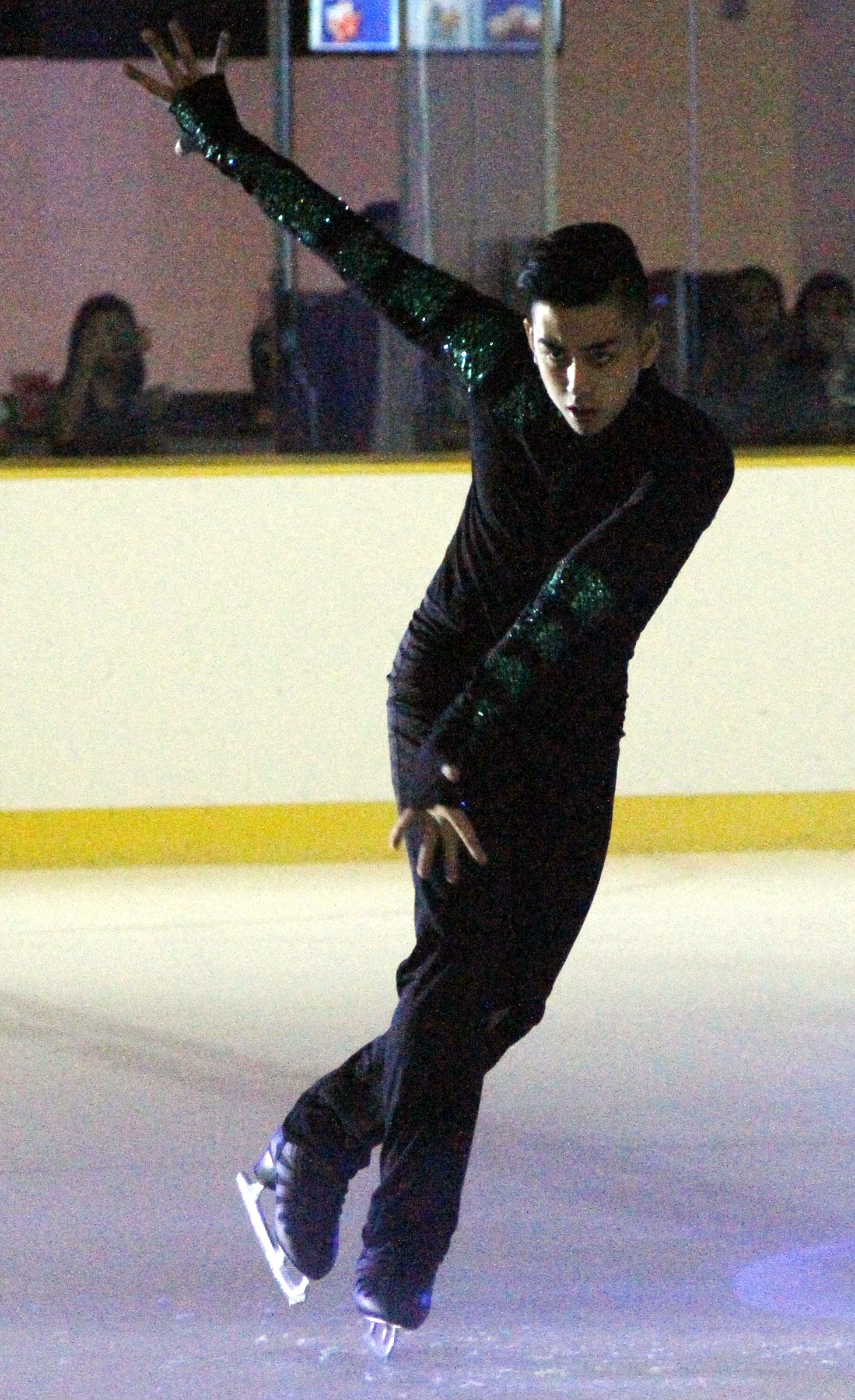 Michael Martinez, who represented the Philippines in the 2018 Pyeongchang Winter Olympics, performs during his homecoming celebration at the SM Mall of Asia in Pasay City on Thursday (Feb. 22, 2018). Martinez said he hopes his experience becomes an inspiration for the next generation of ice athletes. (PNA photo by Jess Escaros Jr.)